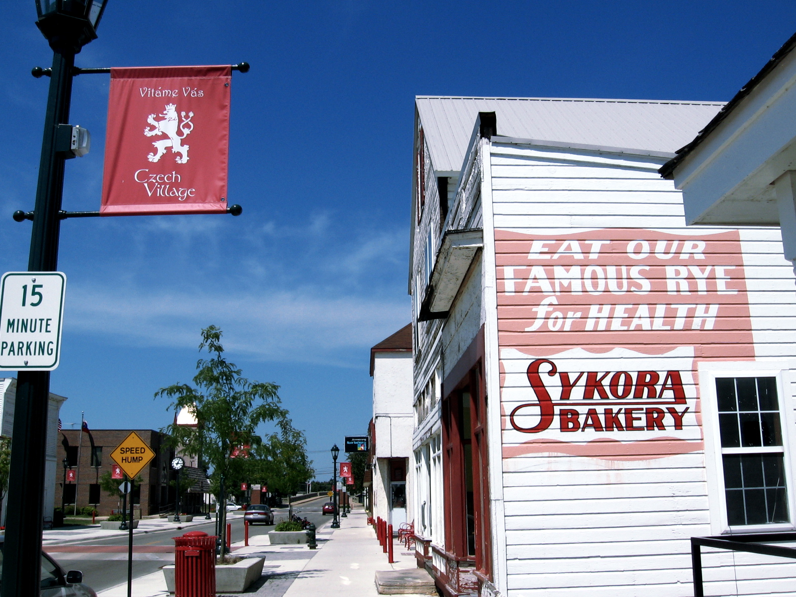 Czech Village south of the Cedar River in Cedar Rapids, Iowa. Looking down 16th Ave at Sykora Bakery.